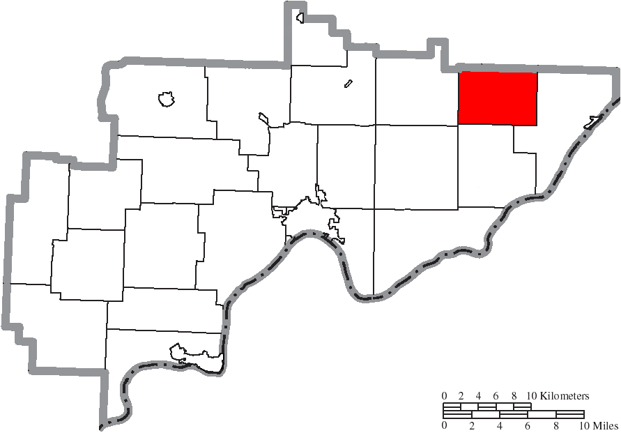 Map of the municipal and township boundaries of Washington County, Ohio, United States, as of the 2000 census, with the location of Ludlow Township highlighted. Township borders are shown only in unincorporated areas in order to differentiate incorporated and unincorporated areas more clearly.